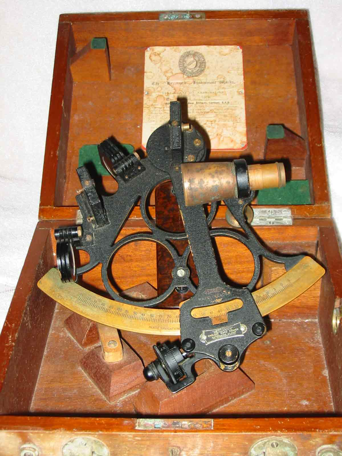 A well-used sextant of mid-20th century vintage. This shows a standard three-ring frame design.